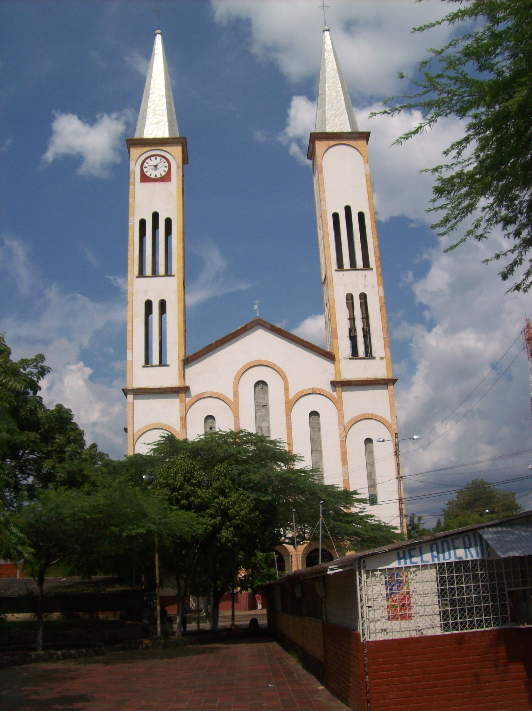 Church of Tocaima (Cundinamarca), Colombia